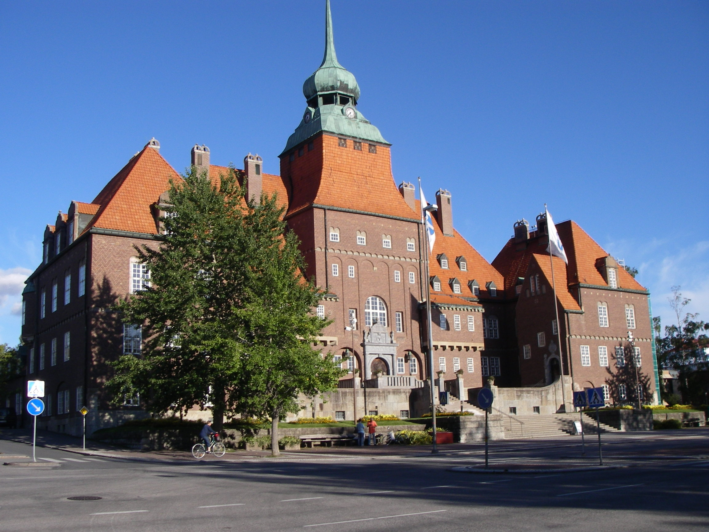 The city hall of Östersund, Sweden.